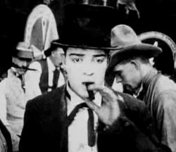 Buster Keaton in comedy Out-West (1918).